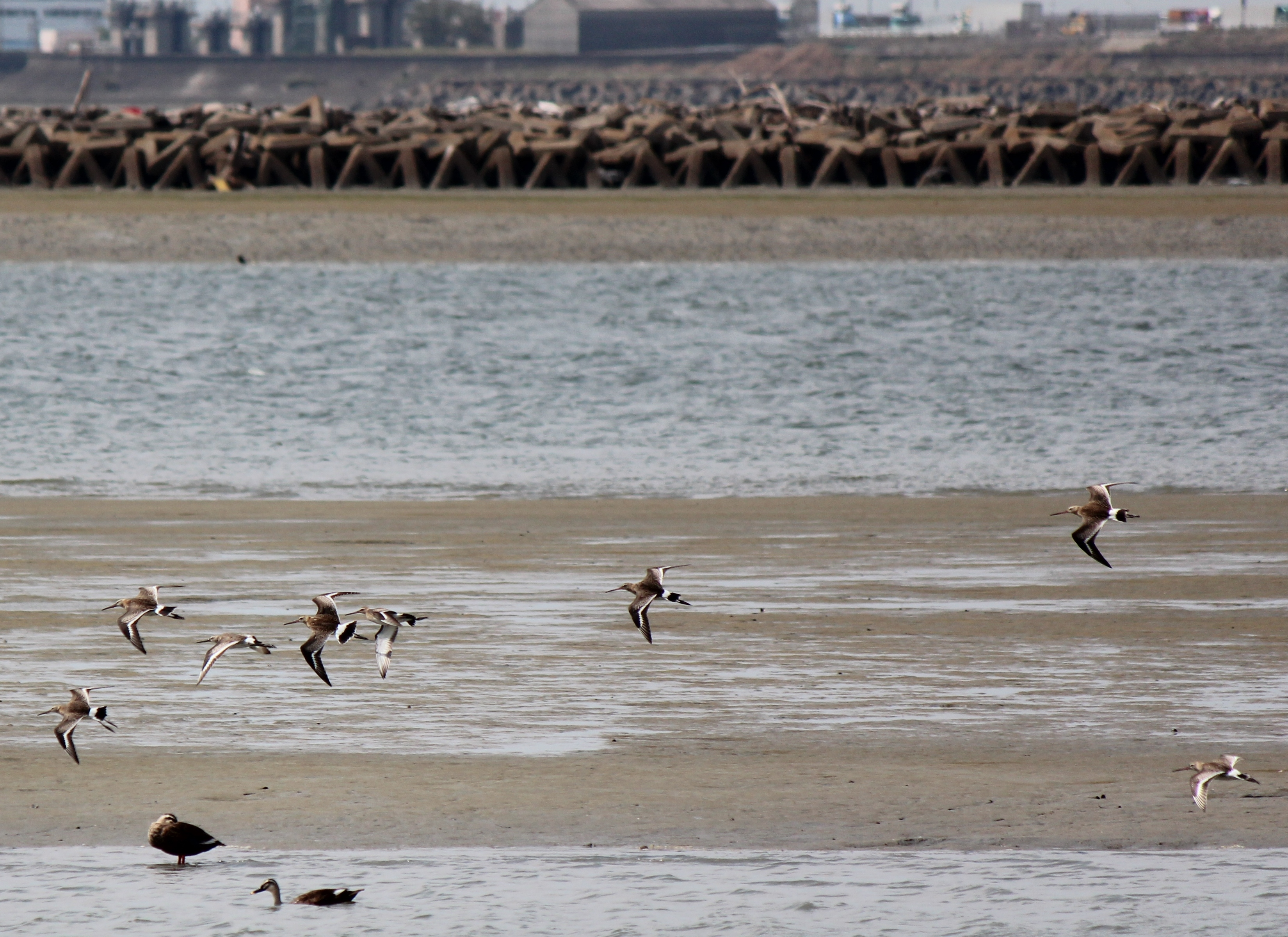 Limosa limosa melanuroides (Black-tailed Godwit), flocks in flight, in Shōnai River, Japan